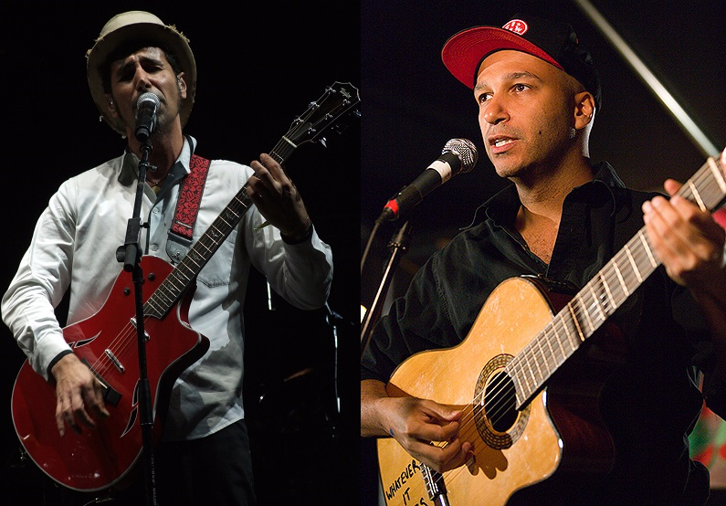 Serj Tankian (left) and Tom Morello (right), the two founders of the non-profit organization Axis of Justice.